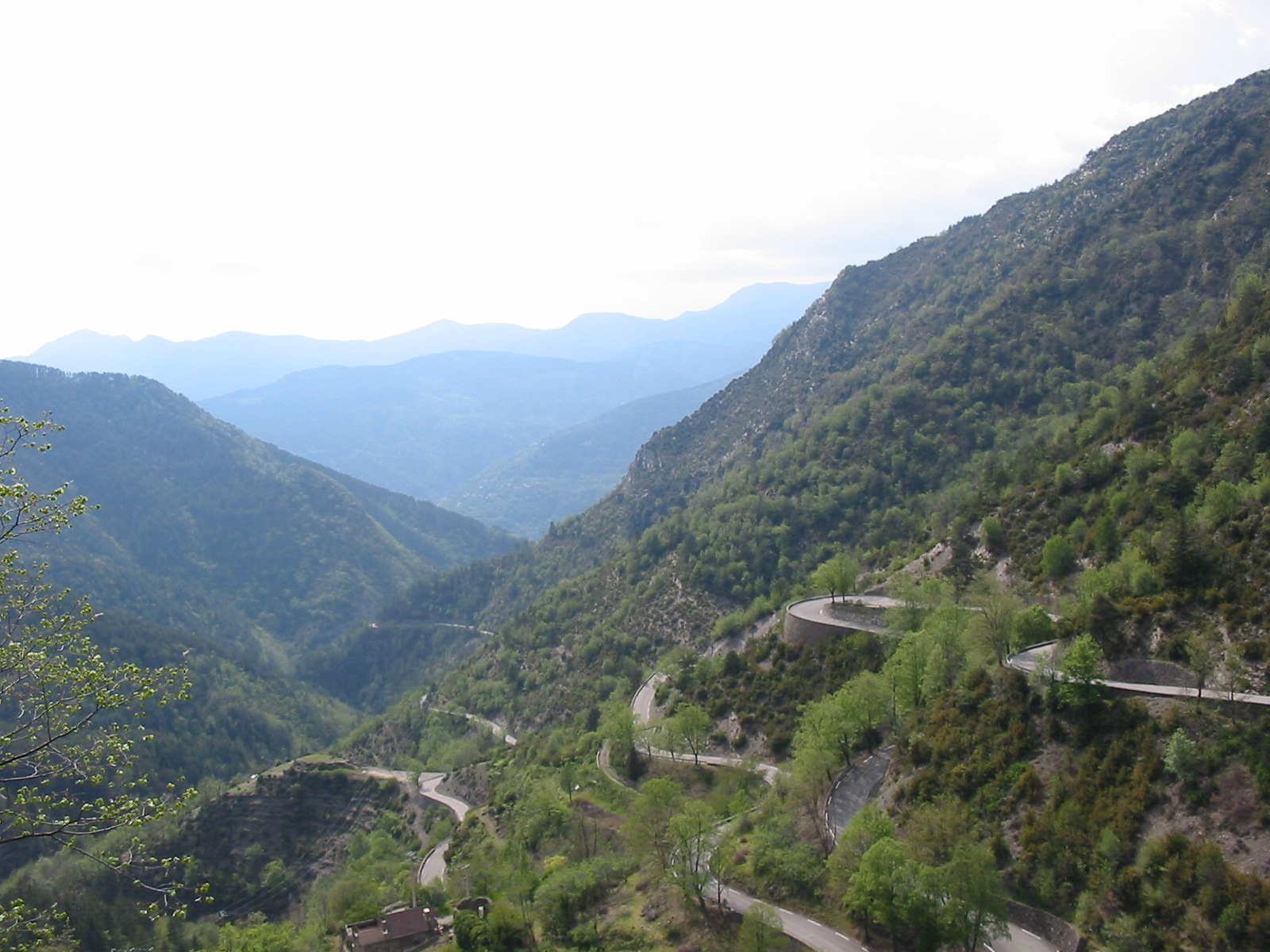 Turns of the col de Turini on the M70 between La Bollène-Vésubie and col de Turini.